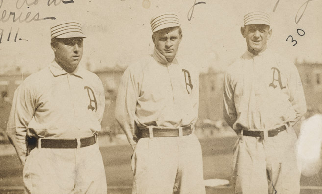 Accession No.: 06_06_000019 Title: Bris Lord, Rube Oldring and Danny Murphy of the Philadelphia Athletics, 1911 World Series Caption: Philadelphia World Series, 1911, Lord, Oldring, Murphy Creator: Luke, T.A. Date: 1911 Format: photograph Description: Outfield for the Athletics during World Series against the New York Giants. Lord was the left fielder, Oldring center fielder and Murphy the right fielder. Luke was a photographer for the Boston Post. BPL Collection: McGreevey Collection BPL Department: Print Subject: Baseball--History World Series (Baseball) (1911) Philadelphia Athletics (Baseball team) New York Giants (Baseball team) Baseball players--1910-1920